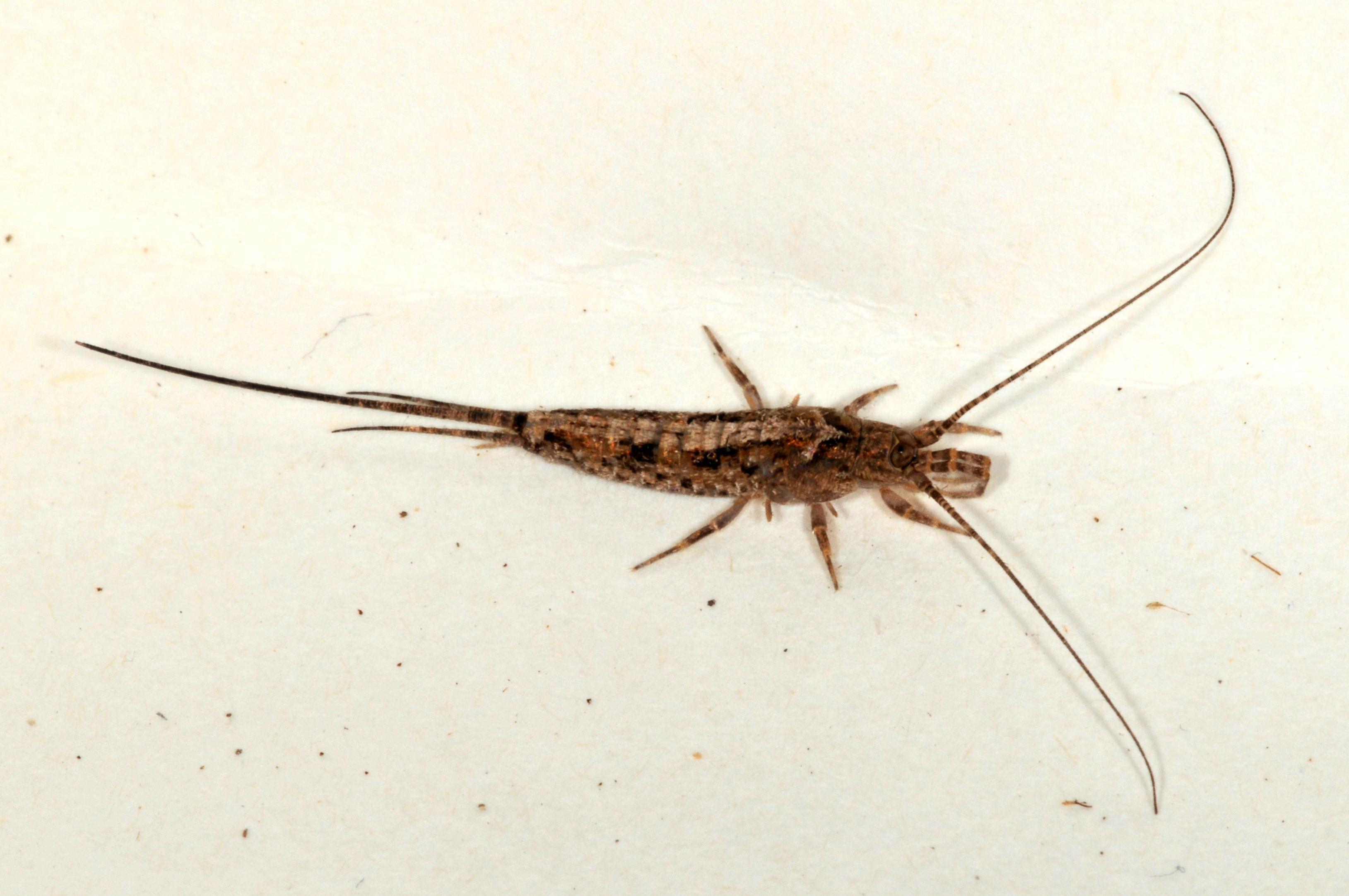 Felsenspringer (Machilidae, Lepismachilis y-signata), Croatia, Istria, Brseč 15 km south Lovran, 45°10`23,80``N 14°13`37,25``E